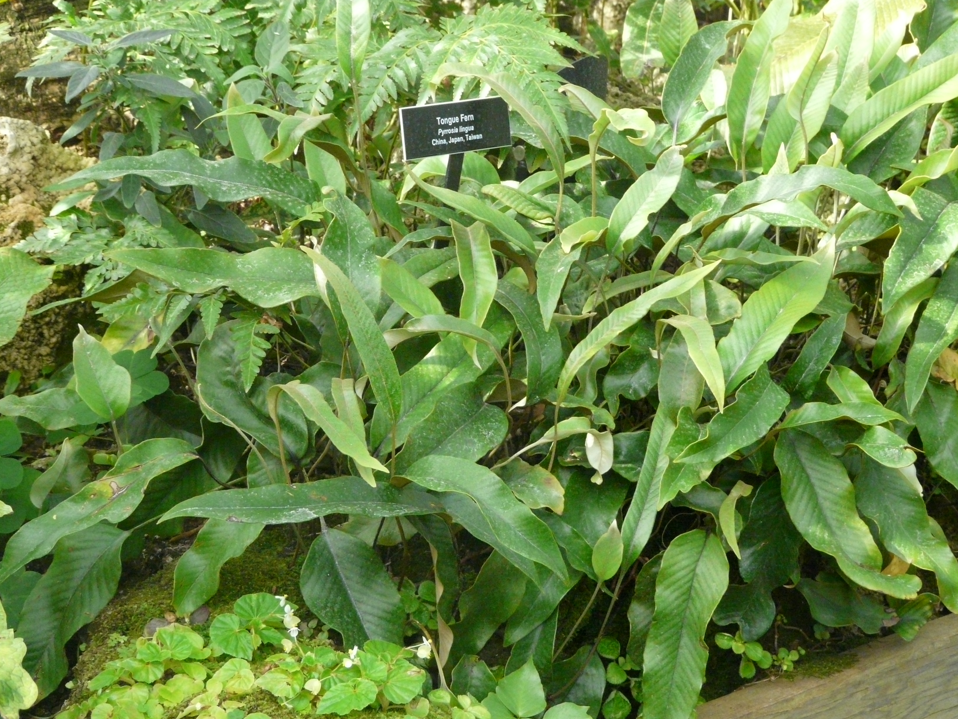 Phipps Conservatory